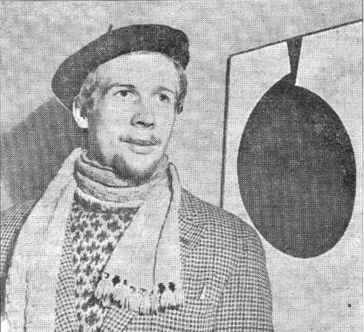 Danish artist Ole Schwalbe - at an exhibition i 1954